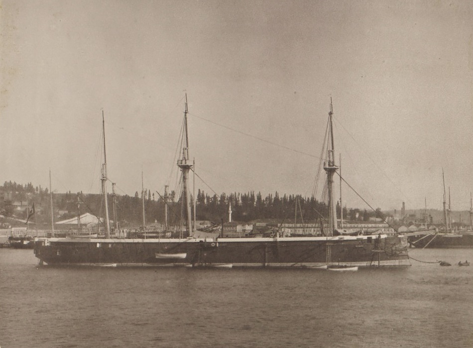 Ottoman ironclad Aziziye in Istanbul